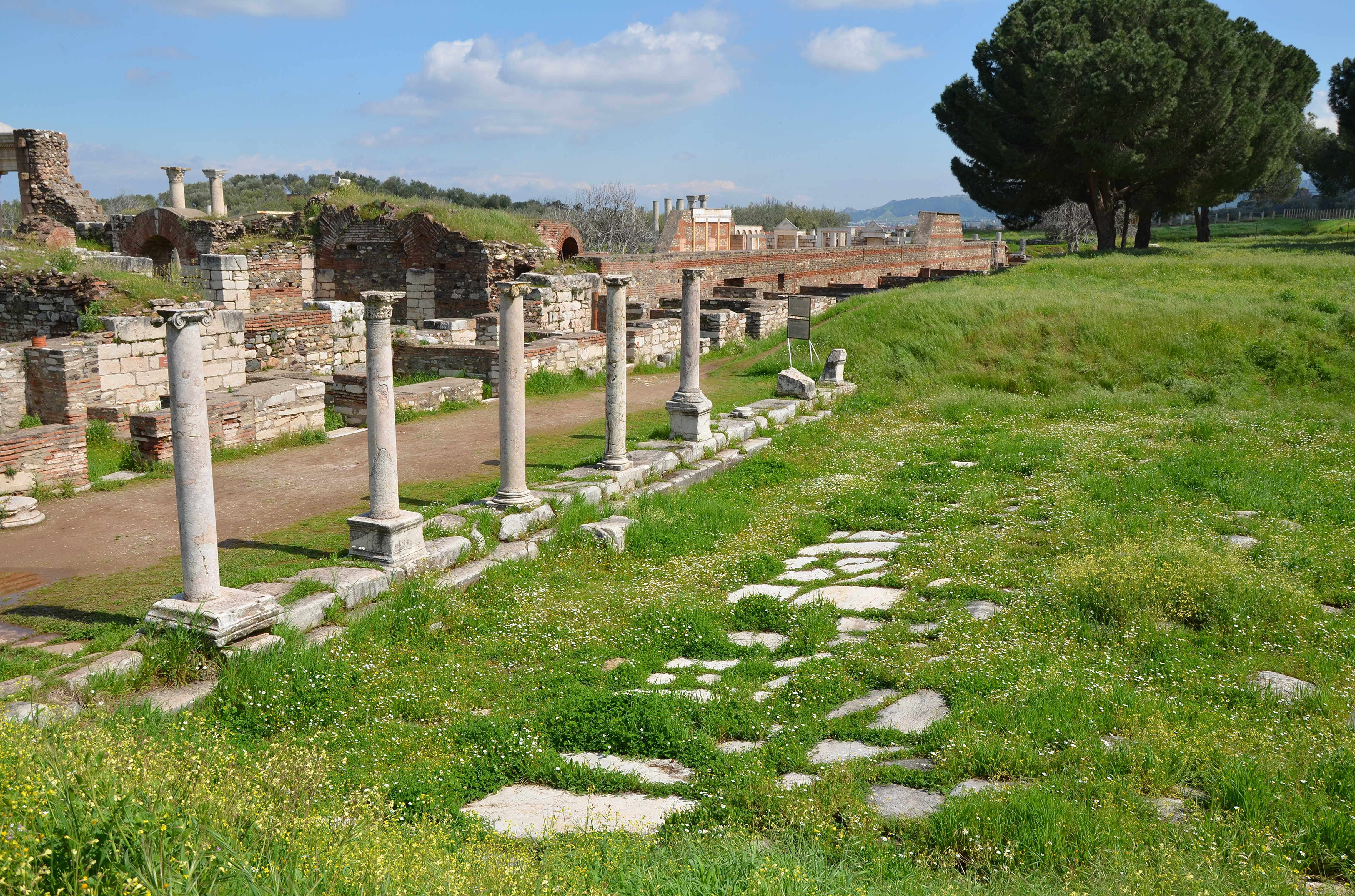 A short segment of the Roman main street paved with marble blocks and flanked by covered porticoes, Sardis (Lydia), Turkey